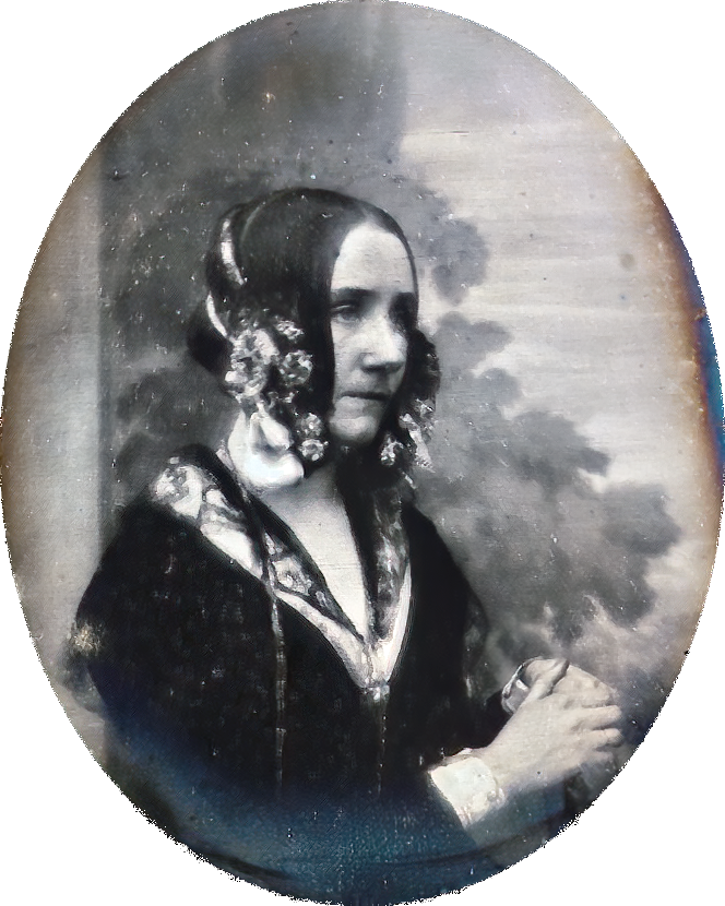 Ada Lovelace aka Augusta Ada Byron-1843 or 1850 a rare daguerreotype by Antoine Claudet. Picture taken in his studio probably near Regents Park in London (cropped)